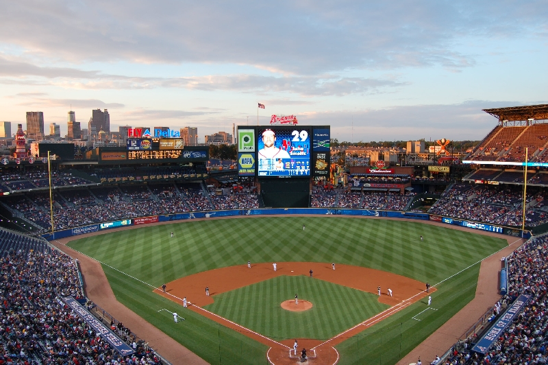 Turner Field 02:04, 20 May 2006 . . Elb2000 . . 800×532 (373,798 bytes) (I took this picture on May 17, 2006.)